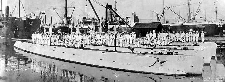 United States Navy's four F-class submarines and their crews at Honolulu, Hawaii. These boats are (from front to back): USS F-4 (SS-23), USS F-2 (SS-21), USS F-3 (SS-22), and USS F-1 (SS-20). The U.S. Army Transport Dix is in the background. Note the "fish" flags and 13-star "boat" ensigns flown by these submarines.